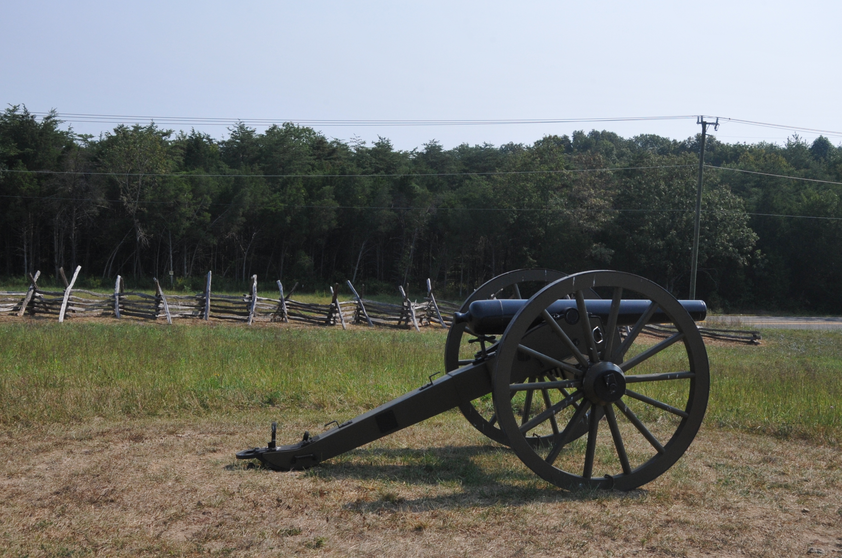 OCTOBER 14TH, 1863. FORCES LED BY MAJOR GENERAL WARREN FOR THE UNION AND LT. GENERAL A.P. HILL RESULTED IN A CONFEDERATE DEFEAT ALTHOUGH THE NEARBY RAILROAD WAS DESTROYED AND HAD TO BE REBUILT BY THE UNION